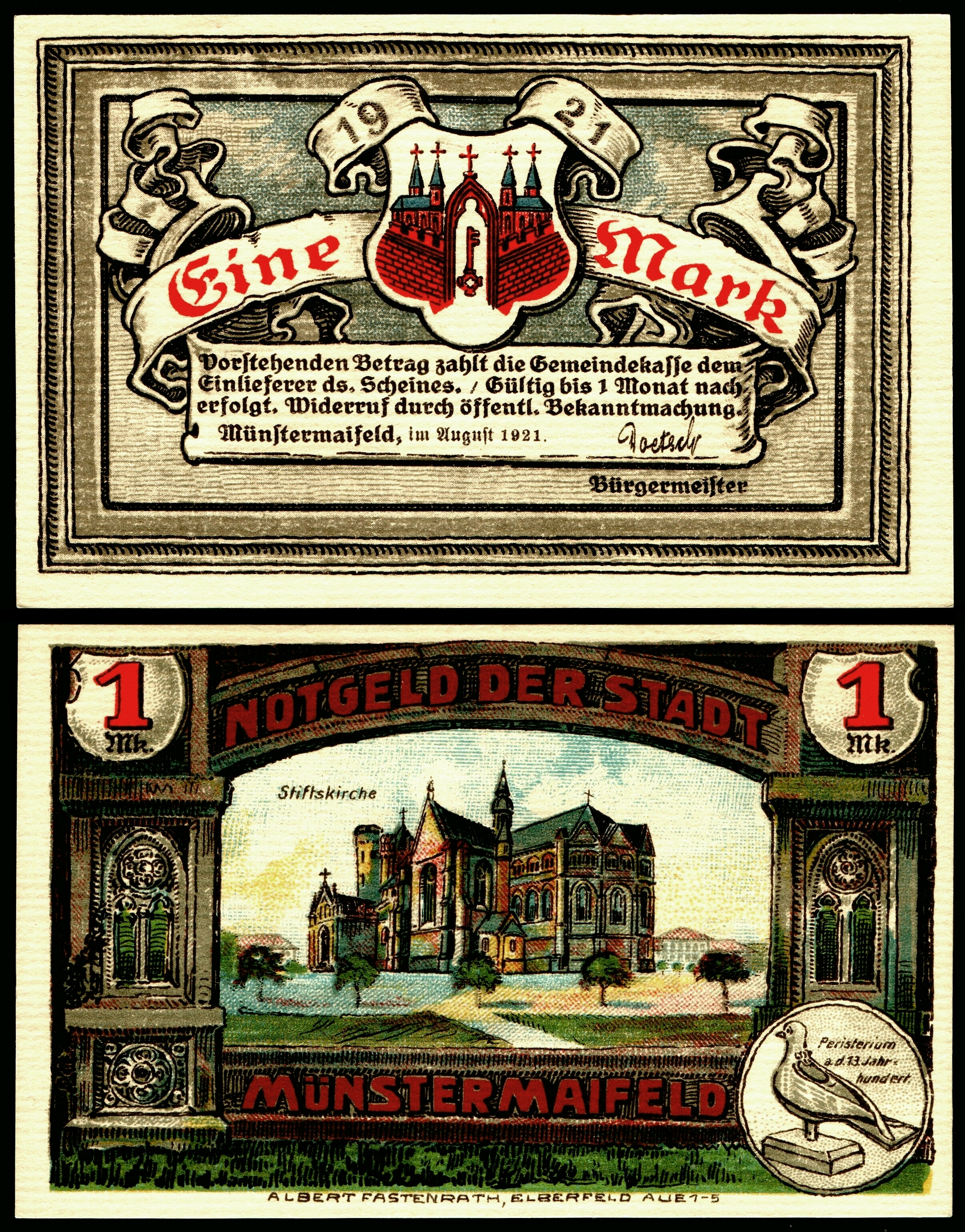 Notgeld banknote (German for "emergency money" or "necessity money"), 1921, 1 Mark, issued by the town of Münstermaifeld, Germany. RV: St. Martin und St. Severus Church. Size: 98 mm x 63 mm.